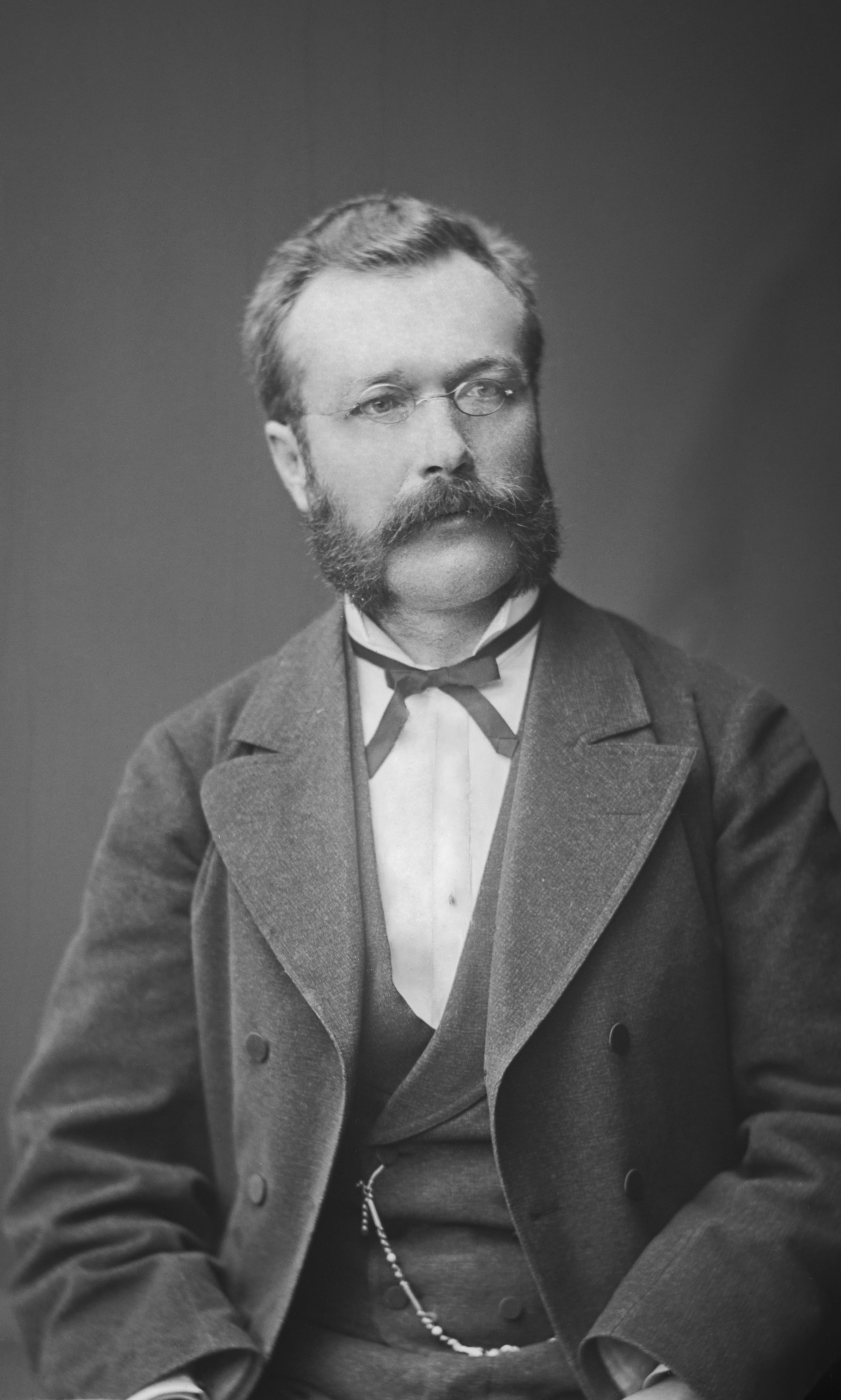 Photograph of the Finnish writer Kaarlo J. Blomstedt (1839–1888).